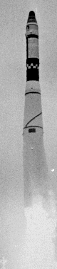 Thor SLV-2 Agena D rocket with Corona 70 satellite